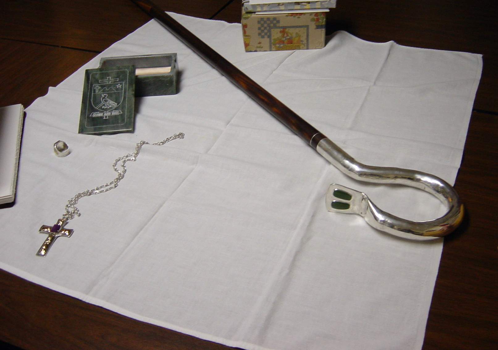 The insignia of Bishop David Monroe's episcopal office.